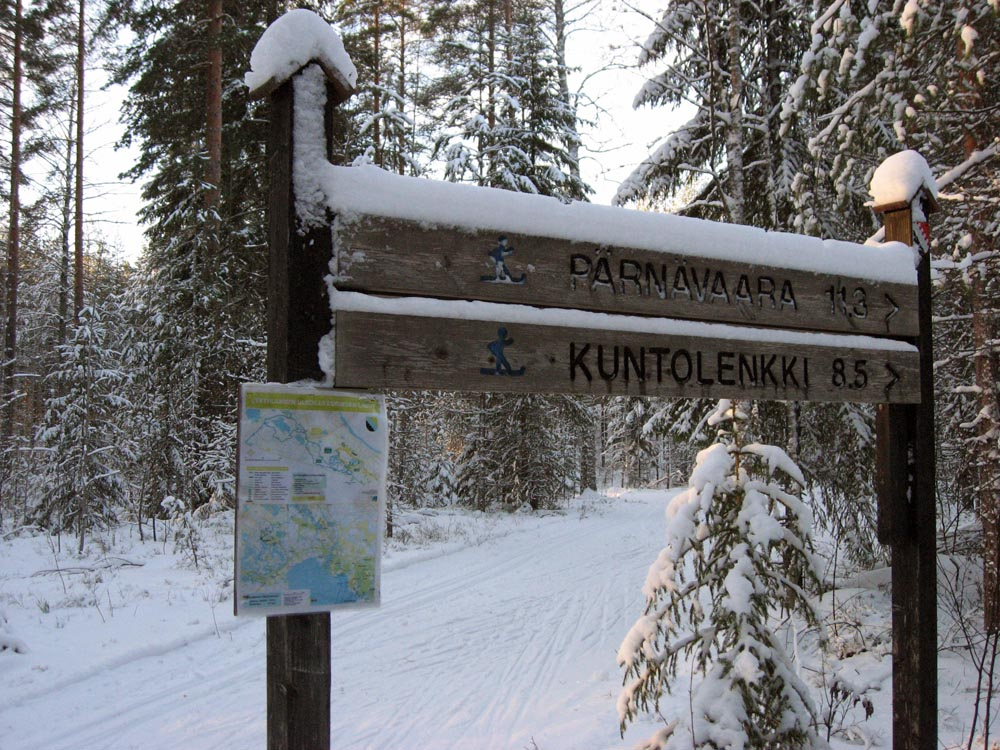 Lykynlampi skiing centre in Joensuu, Finland